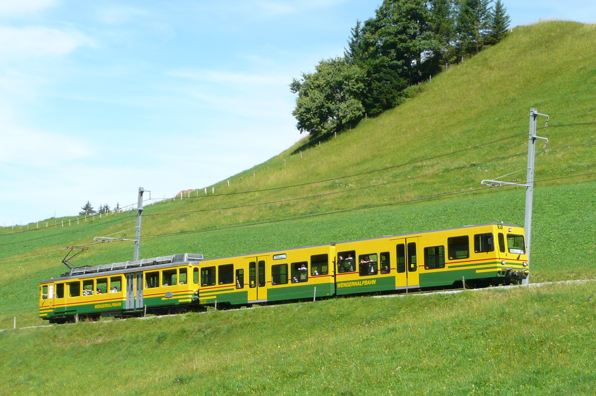 Wengernalp rack railway summer shuttle train composition since 1998 motor coach BDhe 4/4 124 of 1970 and control cab coach series Bt6 241-244 of 1998. Line Lauterbrunnen-Kleine Scheidegg – 2009-08-05